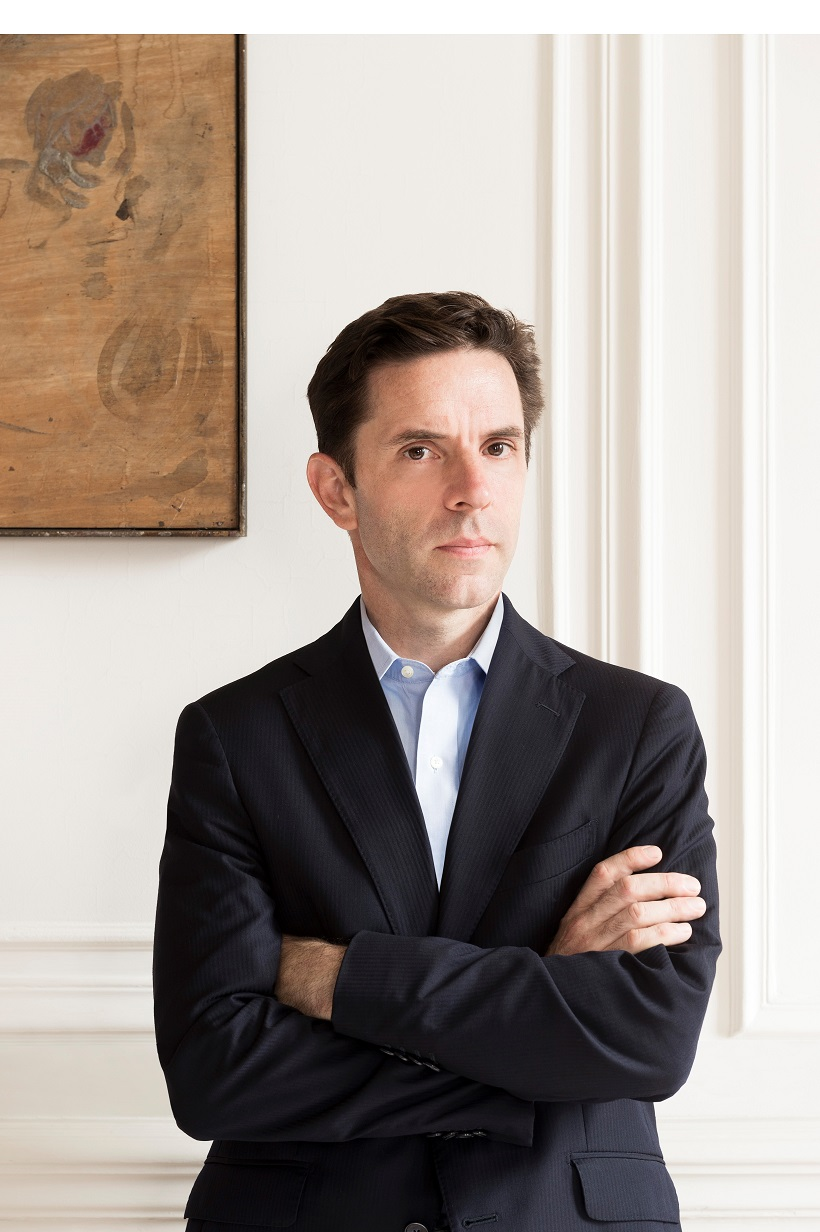 Justin Vaïsse image